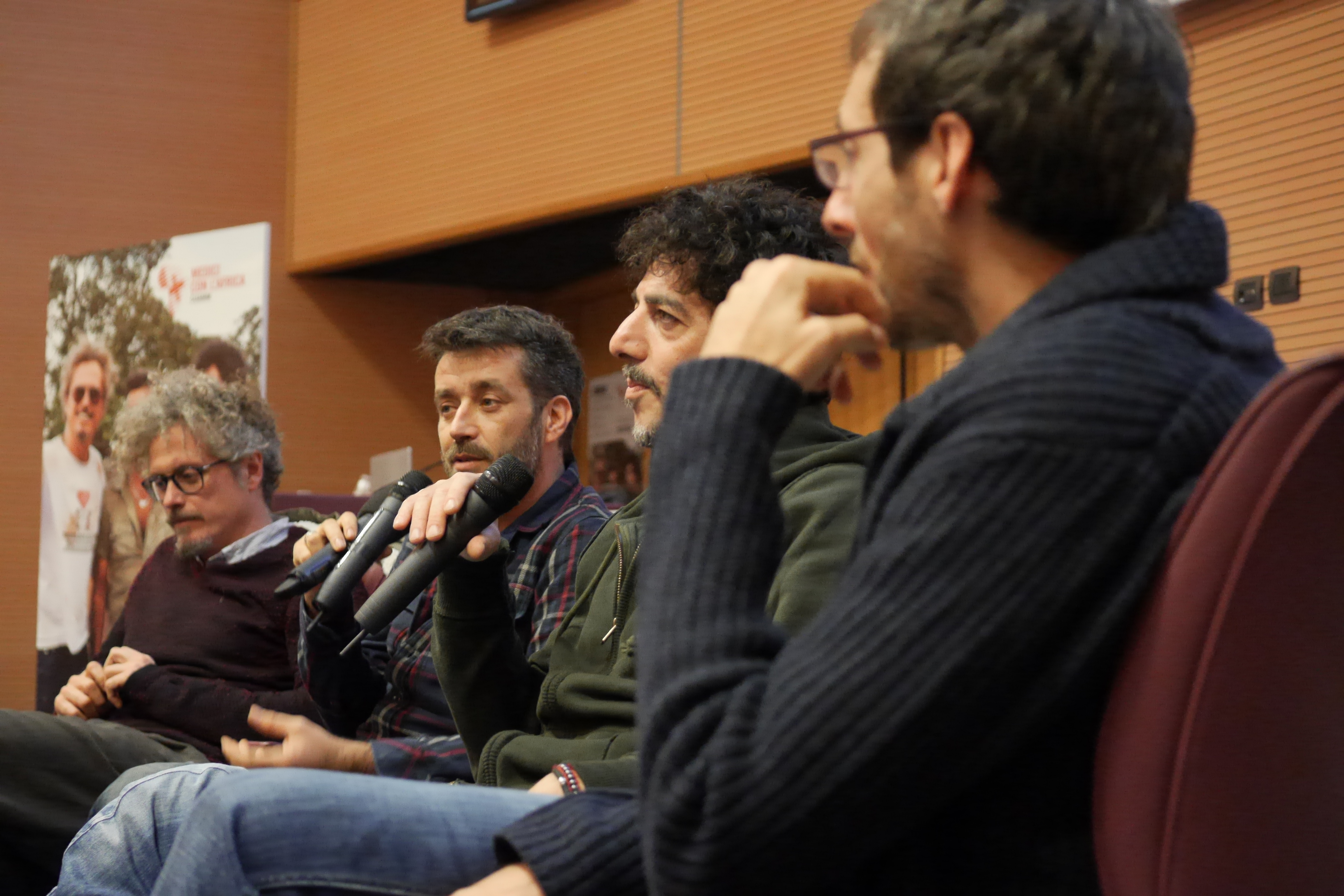 Modena, 20 novembre 2014 Aula Magna dell'Università, Centro Servizi del Policlinico (da sinistra: Niccolò Fabi, Daniele Silvestri, Max Gazzè e il giornalista Federico Taddia che ha presentato l'incontro)